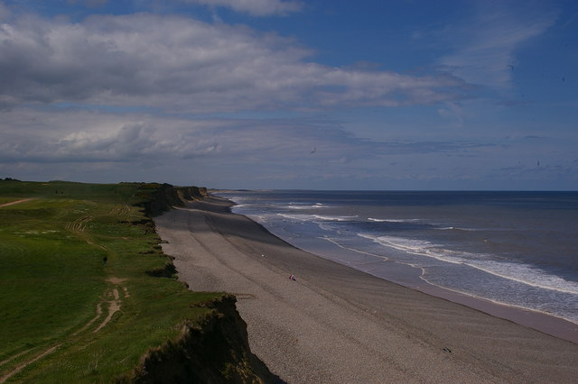 North Norfolk Coastal Path View of the North Norfolk Coastal Path between Weybourne and Sheringham